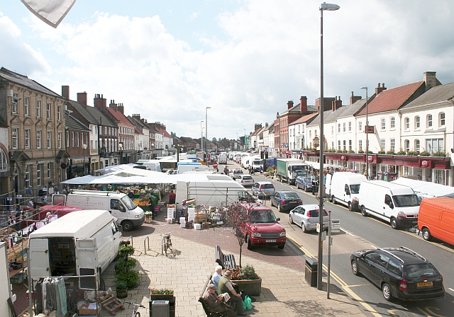 Northallerton Market